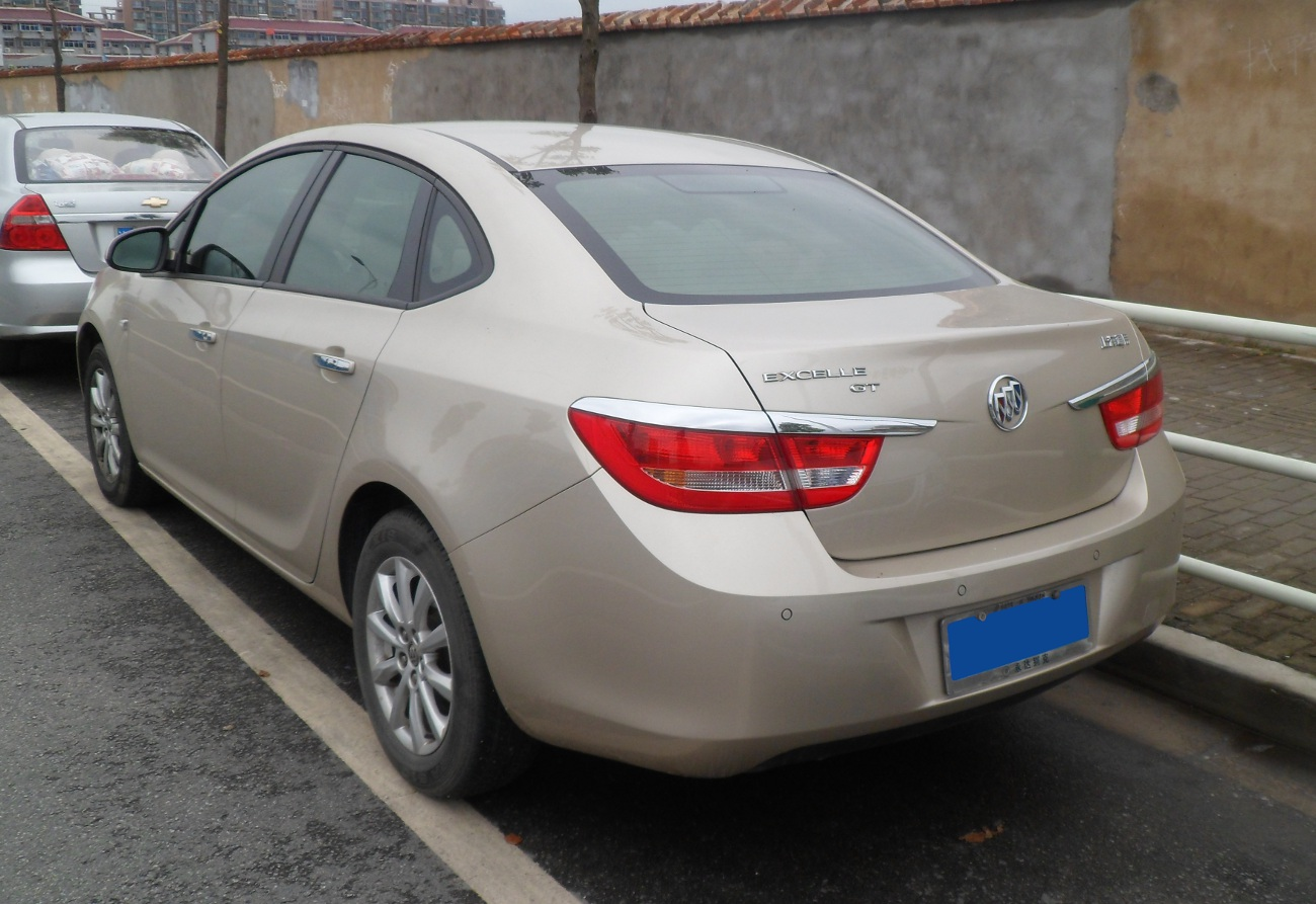 Buick Excelle GT photographed in Shanghai, China.